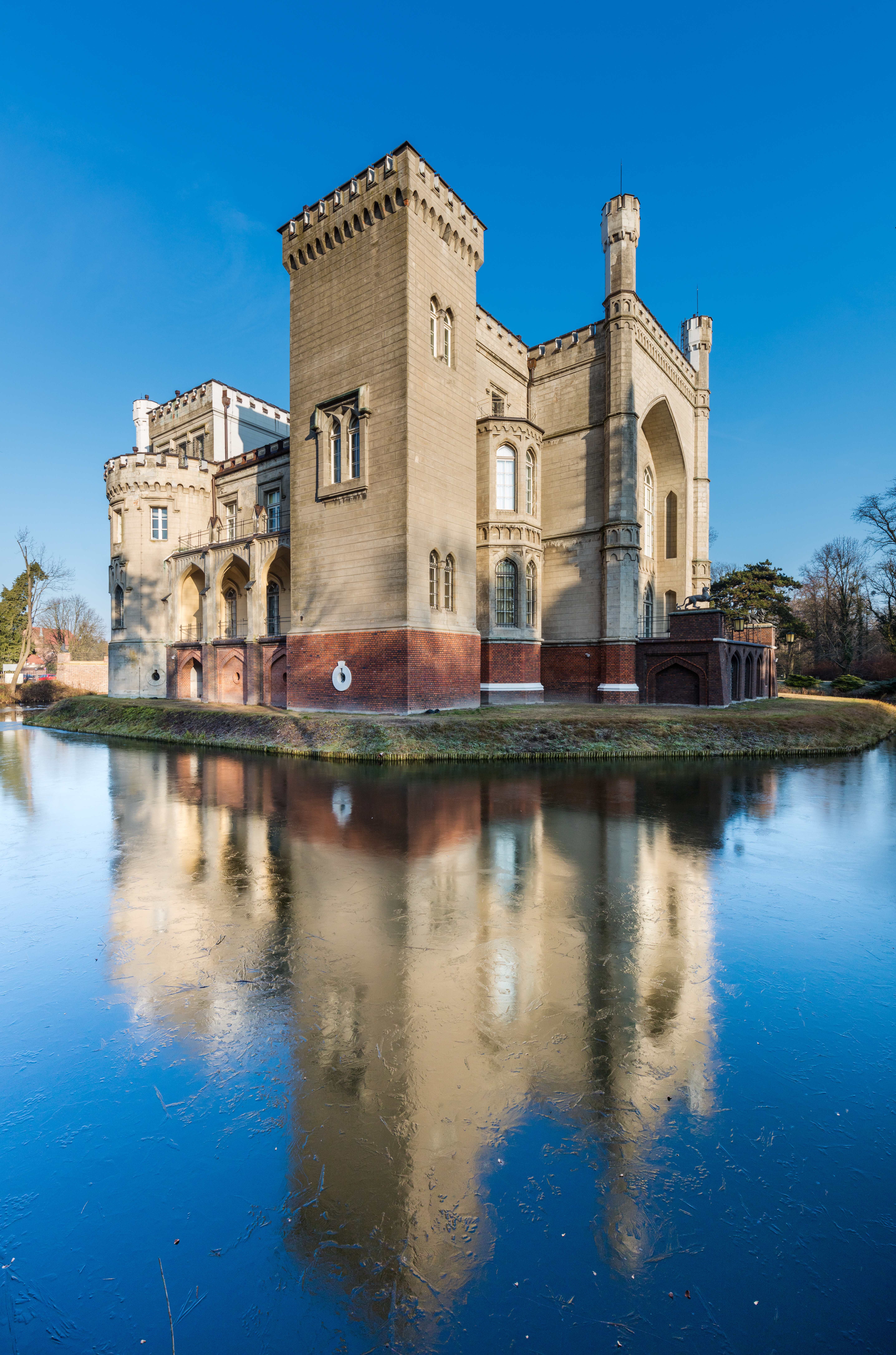 Kórnik Castle, Kórnik, Greater Poland Voivodeship, Poland. The castle was constructed in the 14th century but it was remodeled to its current neogothic style in 1855 by the architect Karl Friedrich Schinkel. The fortification is today owned by the Polish state and houses a museum and the Kórnik Library.